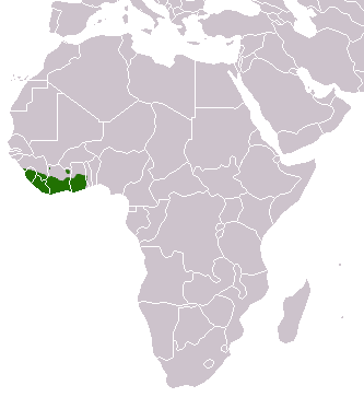 Common Kusimanse (Crossarchus obscurus) range